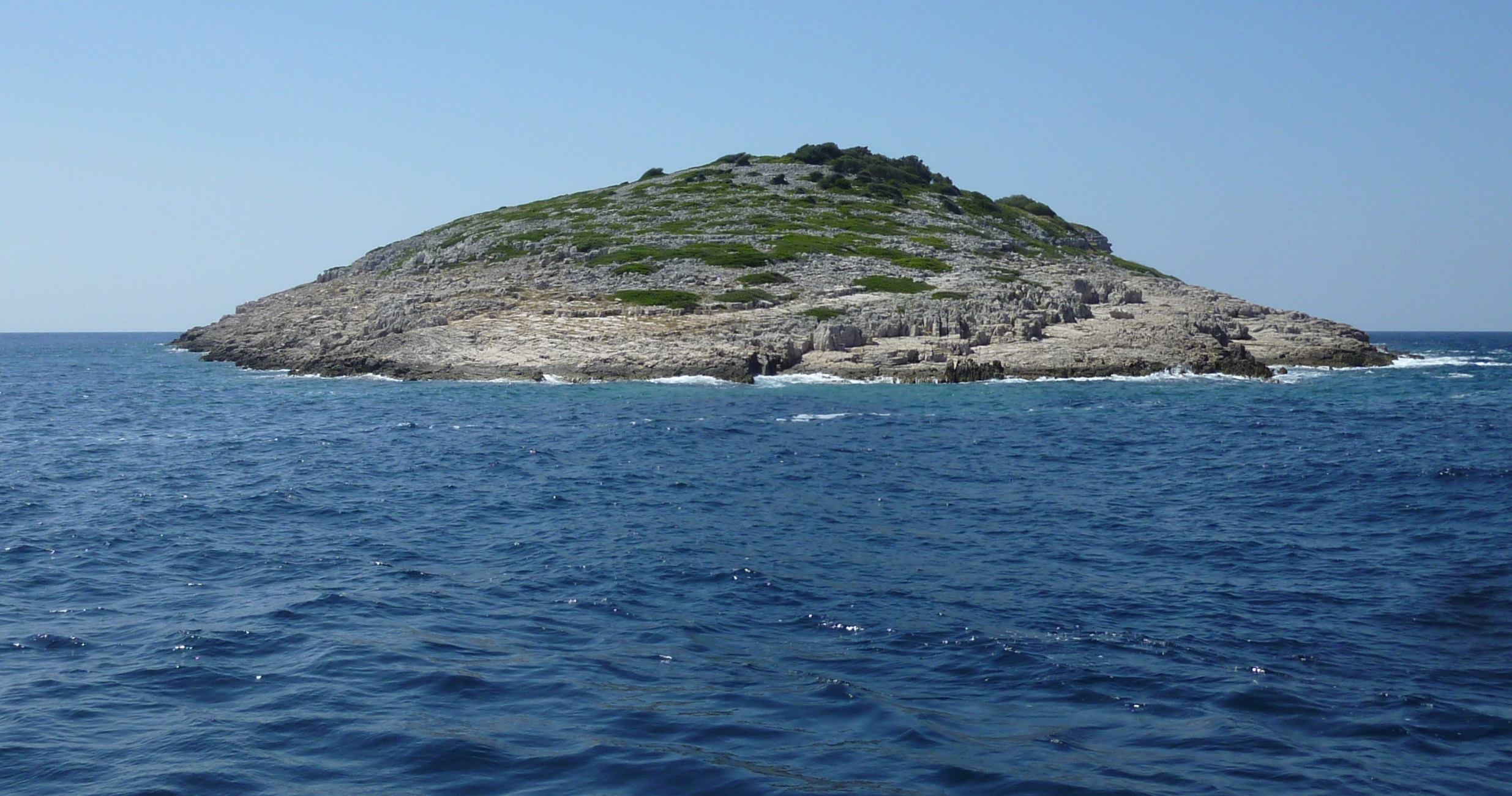 Islet Garmenjak Mali at Dugi Otok.